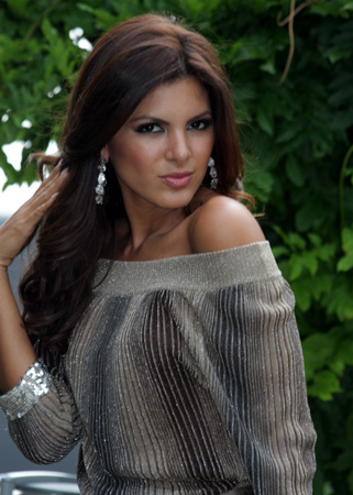 Miss Venezuela 2008 Hannelly Quintero during Miss World 08.